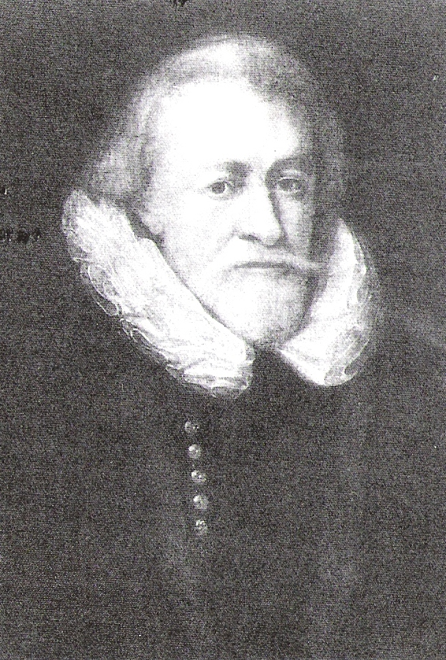 Detail from 1598 portrait of William Dethick, Garter King of Arms.